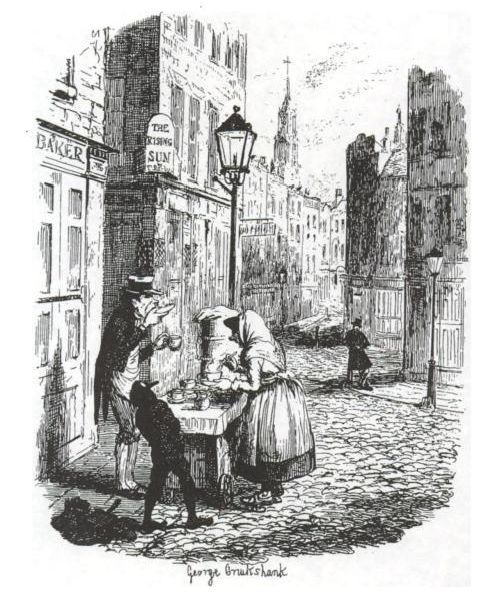 The Streets, Morning, illustration by George Cruikshank for Sketches by Boz, p. 68, London: Chapman and Hall (1839). Public Domain